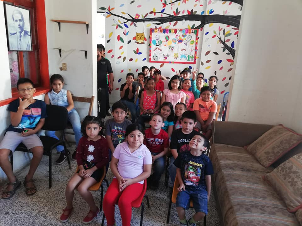 niños cultura casa chiapas